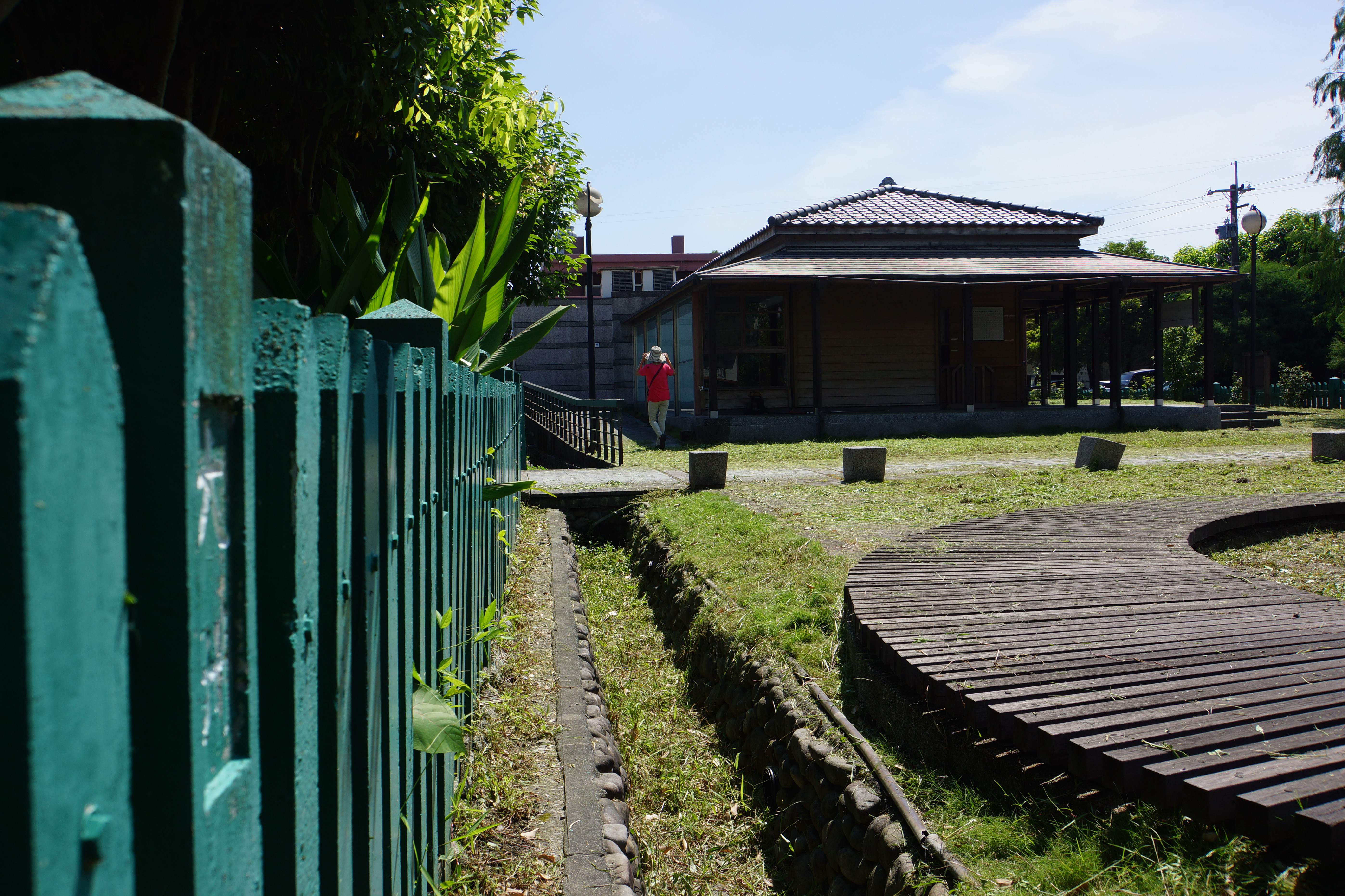 Dazhou Station 大洲車站